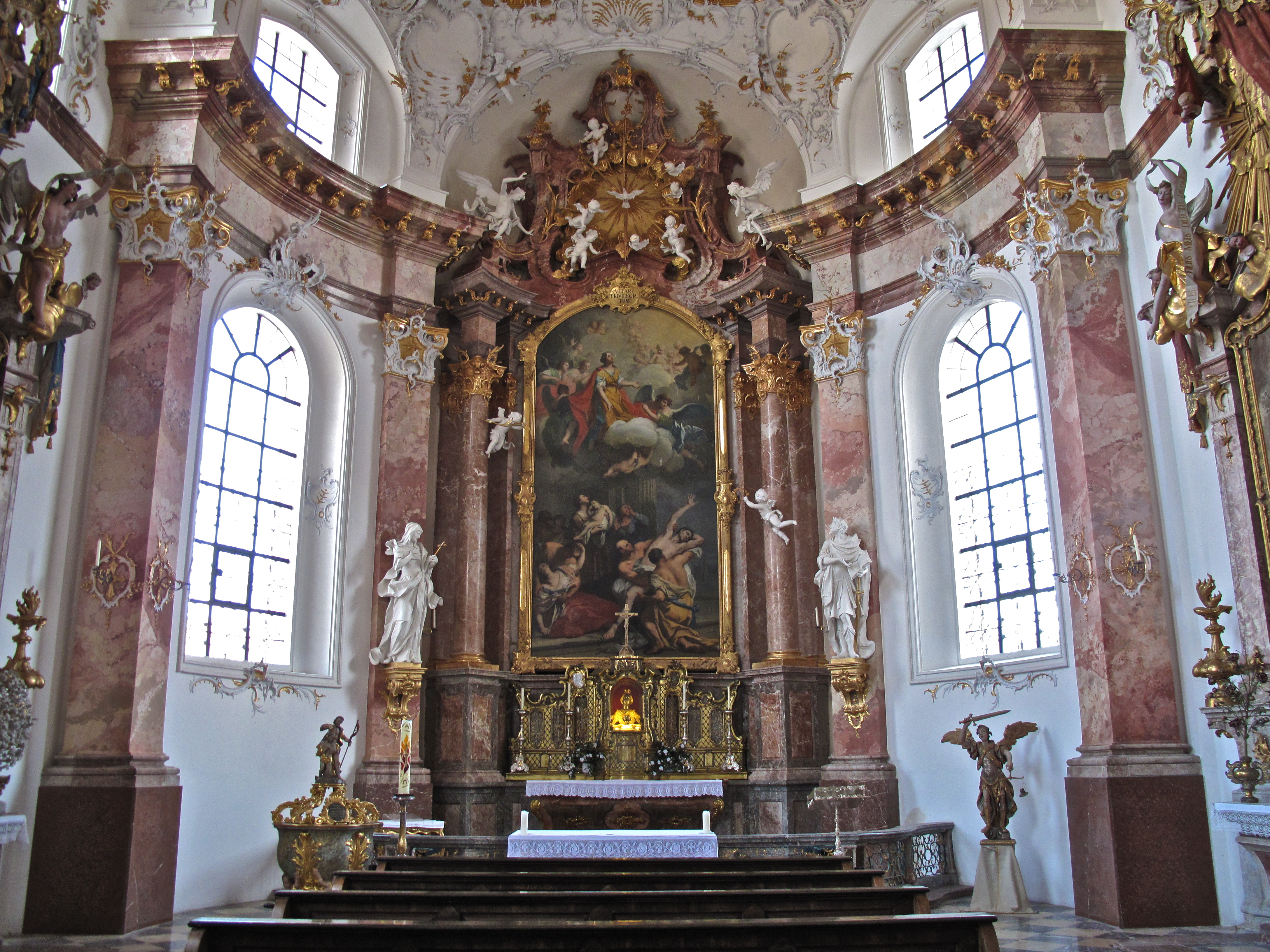 The Anastasia Chapel of Benediktbeuern Abbey in Bavaria, Germany.